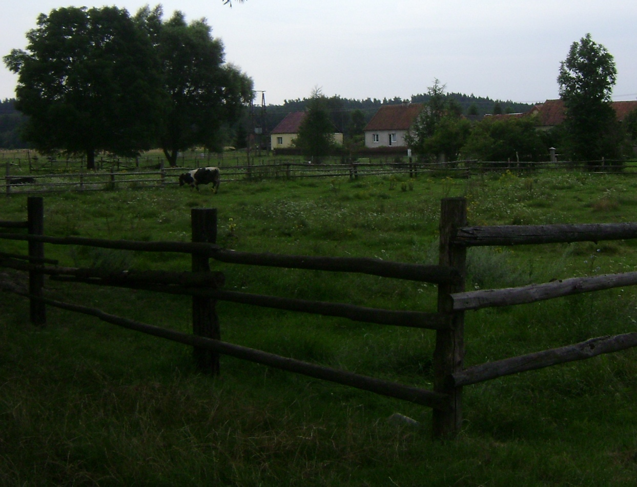 Napiwoda